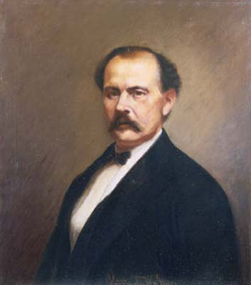 Oden Bowie, former Governor of Maryland. Artist: Katherine Walton (d. 1928) Date: 1912 Medium: Oil on canvas Dimensions: 24" x 30"